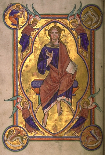 Folio 4 verso from the Aberdeen Bestiary.